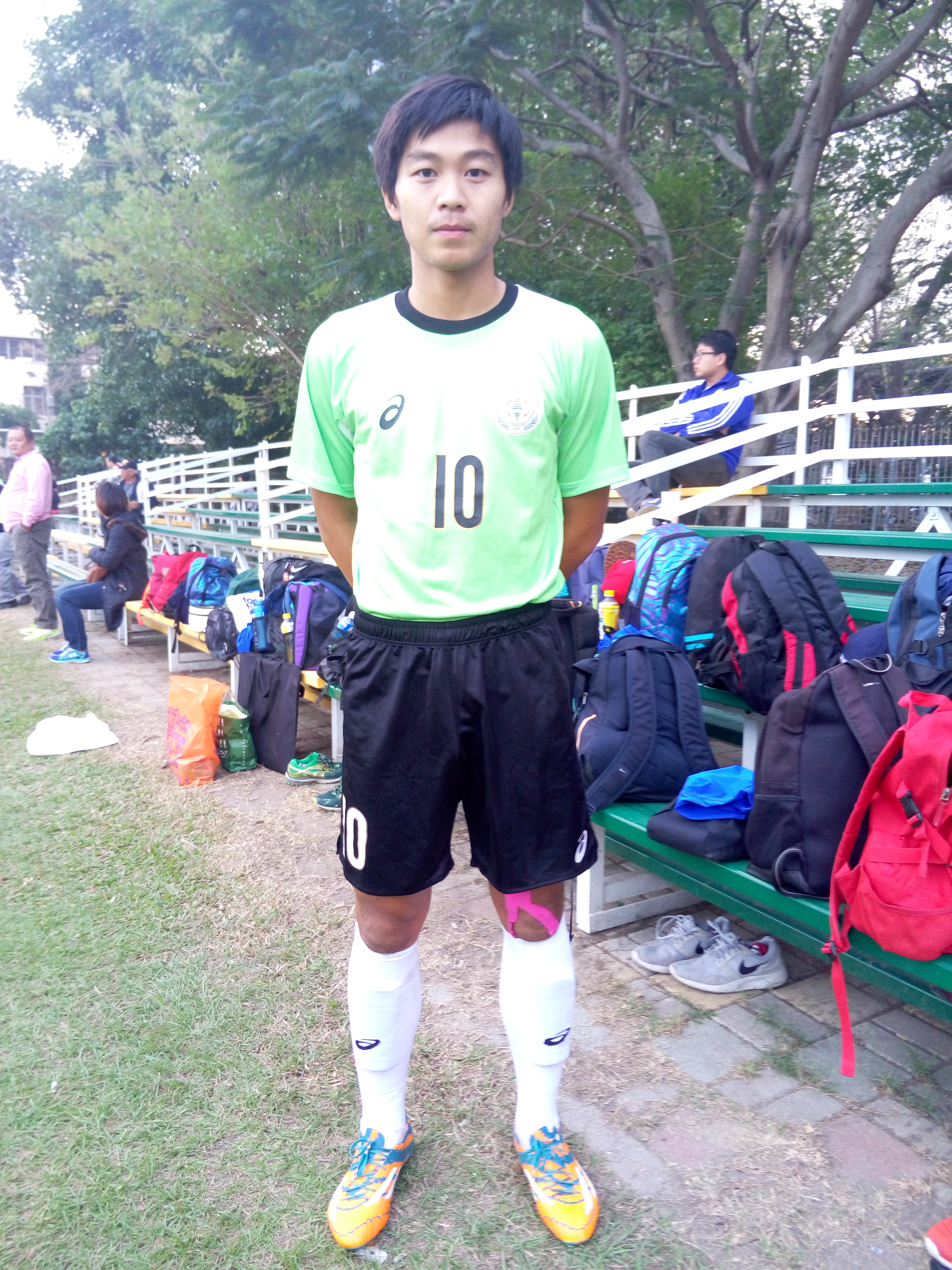 Chiu I-Huan (CHT 邱奕寰) The Football Player from Taiwan Taipei City